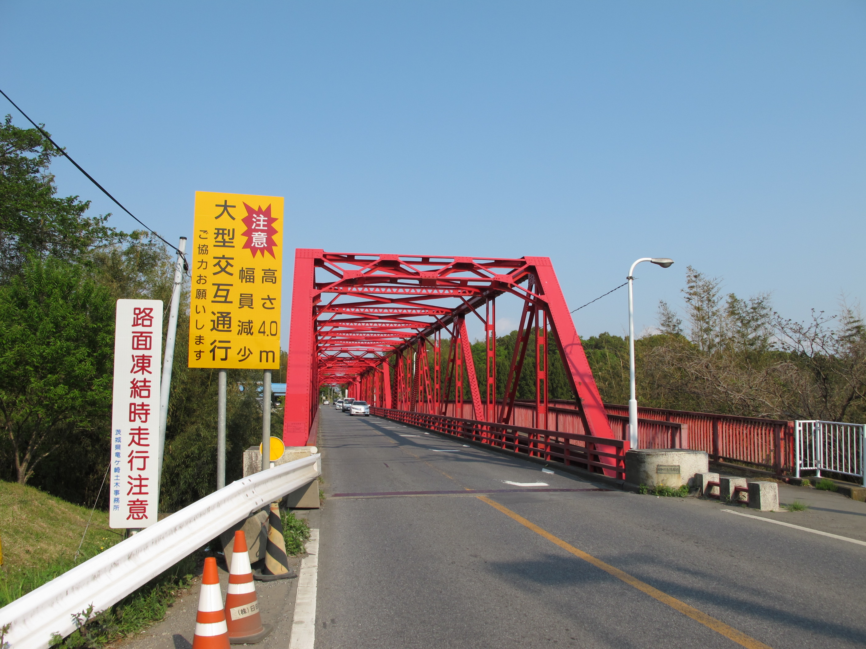 Takishita Bridge (Takishita-bashi) over the Kinu River on the Ibaraki Prefectural Road Route 58 in Itatoi, Moriya City